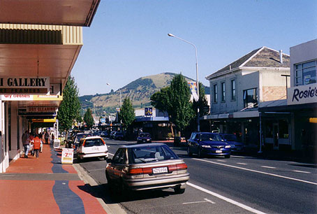 Mosgiel, New Zealand (photo by James Dignan, March 2005)